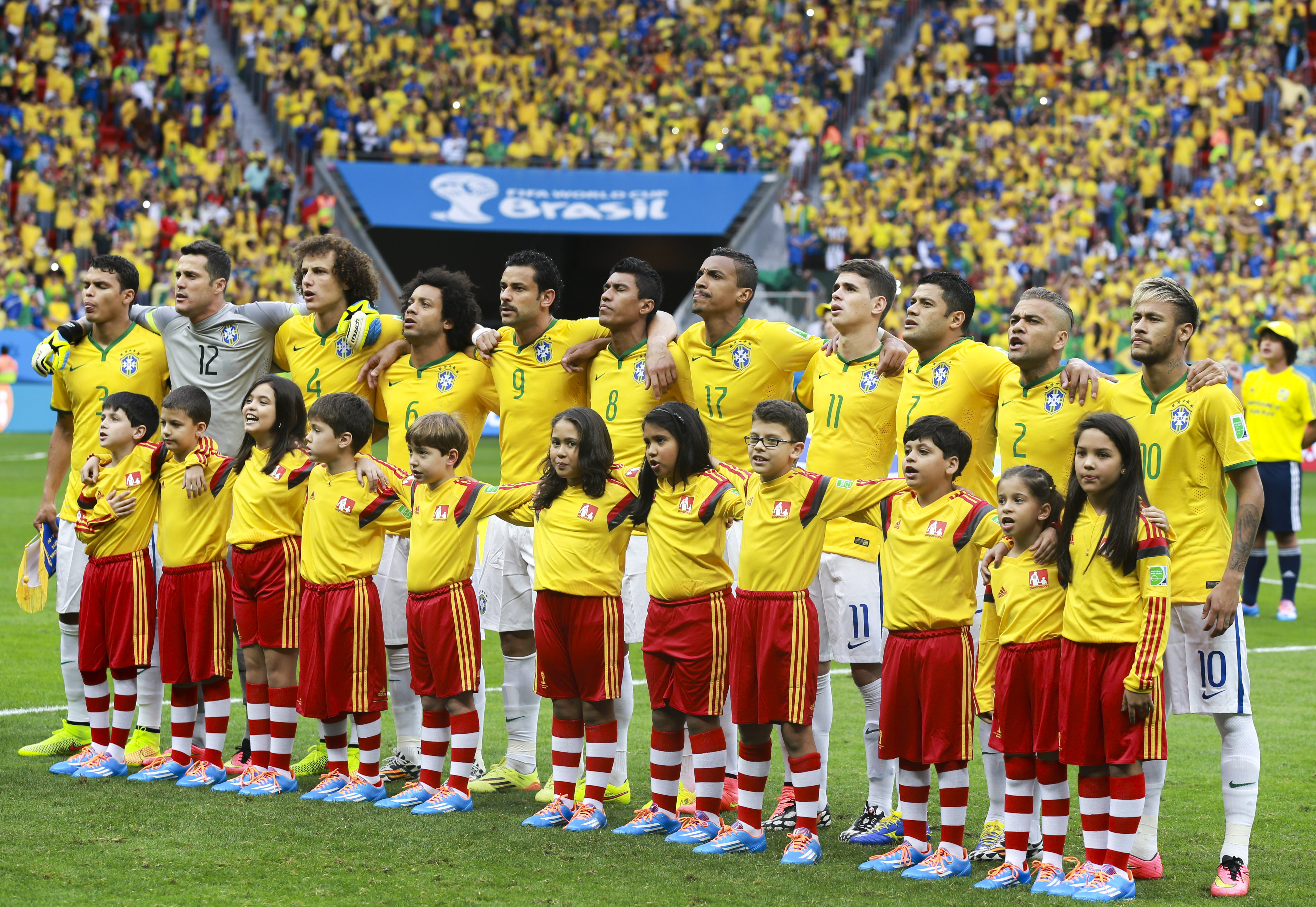 Brasil vs Cameroon during the 2014 FIFA World Cup, at the Estádio Nacional Mané Garrincha in Brasilia.